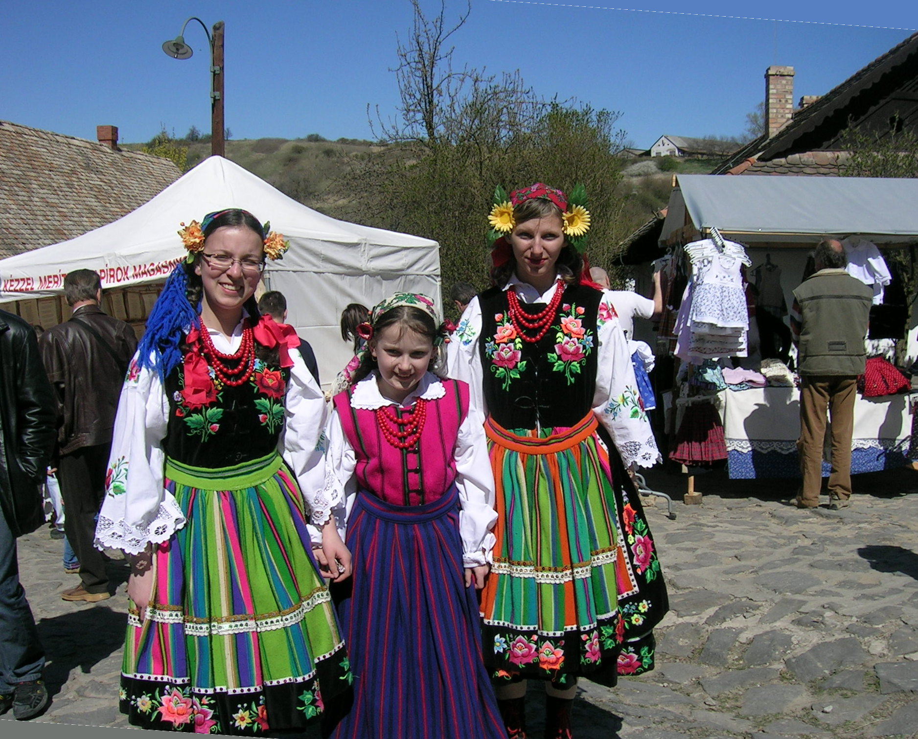 The girls in folk costumes from Lowicz region in Masovia (Poland) in the village of Hollókő (Palóc ethnographic village in Hungary)